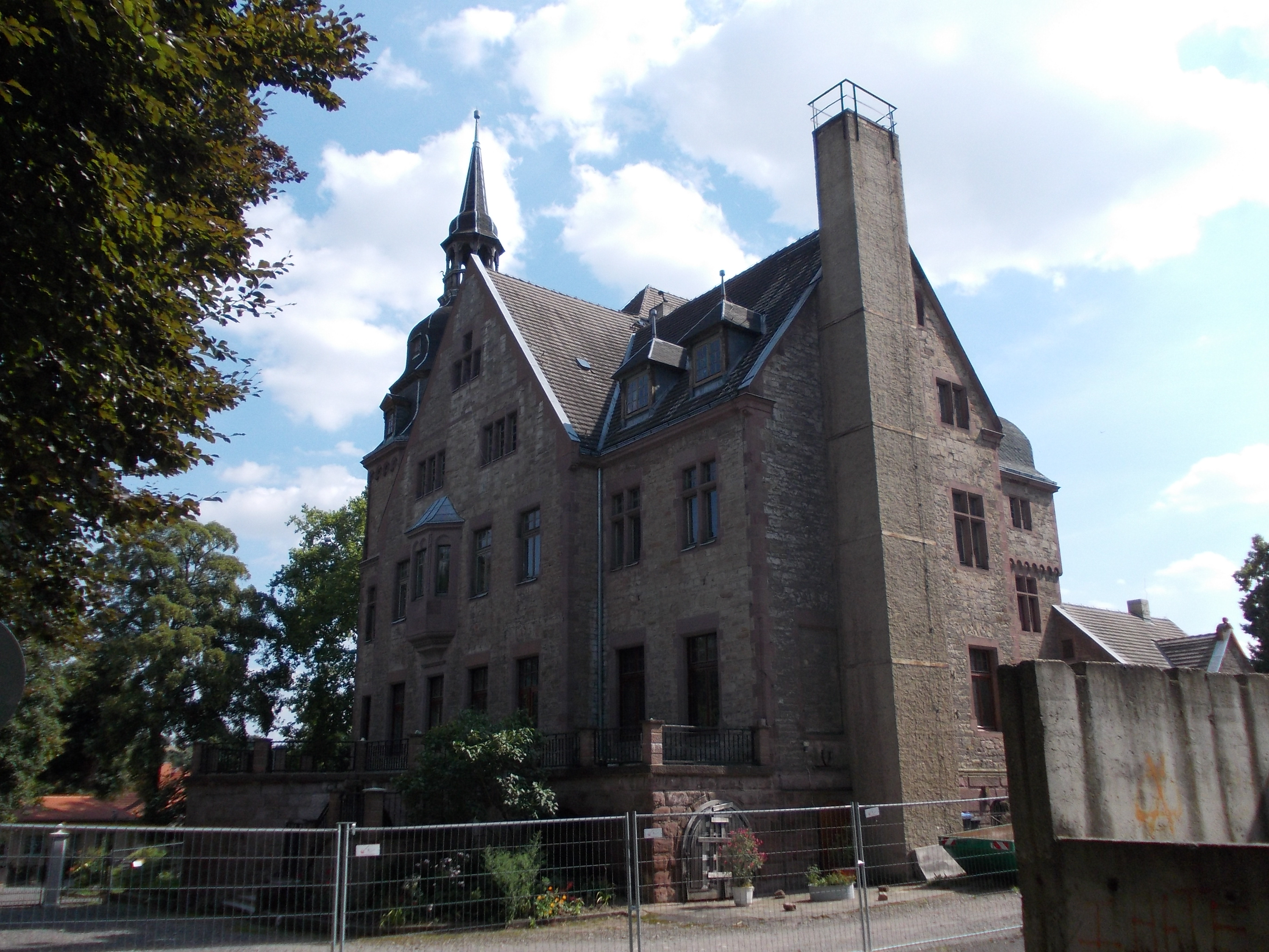 Gerbstedt castle (district of Mansfeld-Südharz, Saxony-Anhalt)